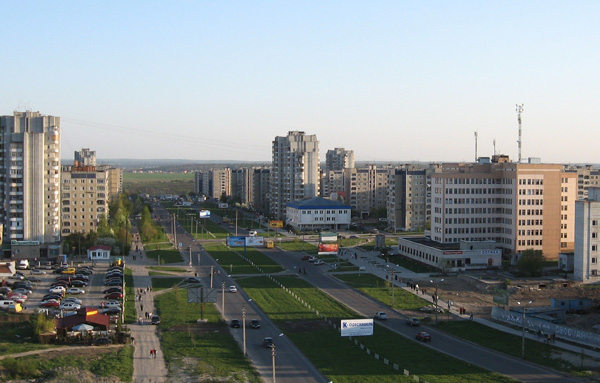 Sykhiv (a part of Lviv), Santa-Barbara neighbourhood